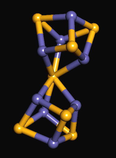 The P cluster from Azotobacter vinelandii nitrogenase in the reduced state. Image created with Accelrys DS Visualizer from PDB file 1M1N. Blue: iron ions; yellow: sulfide ions.